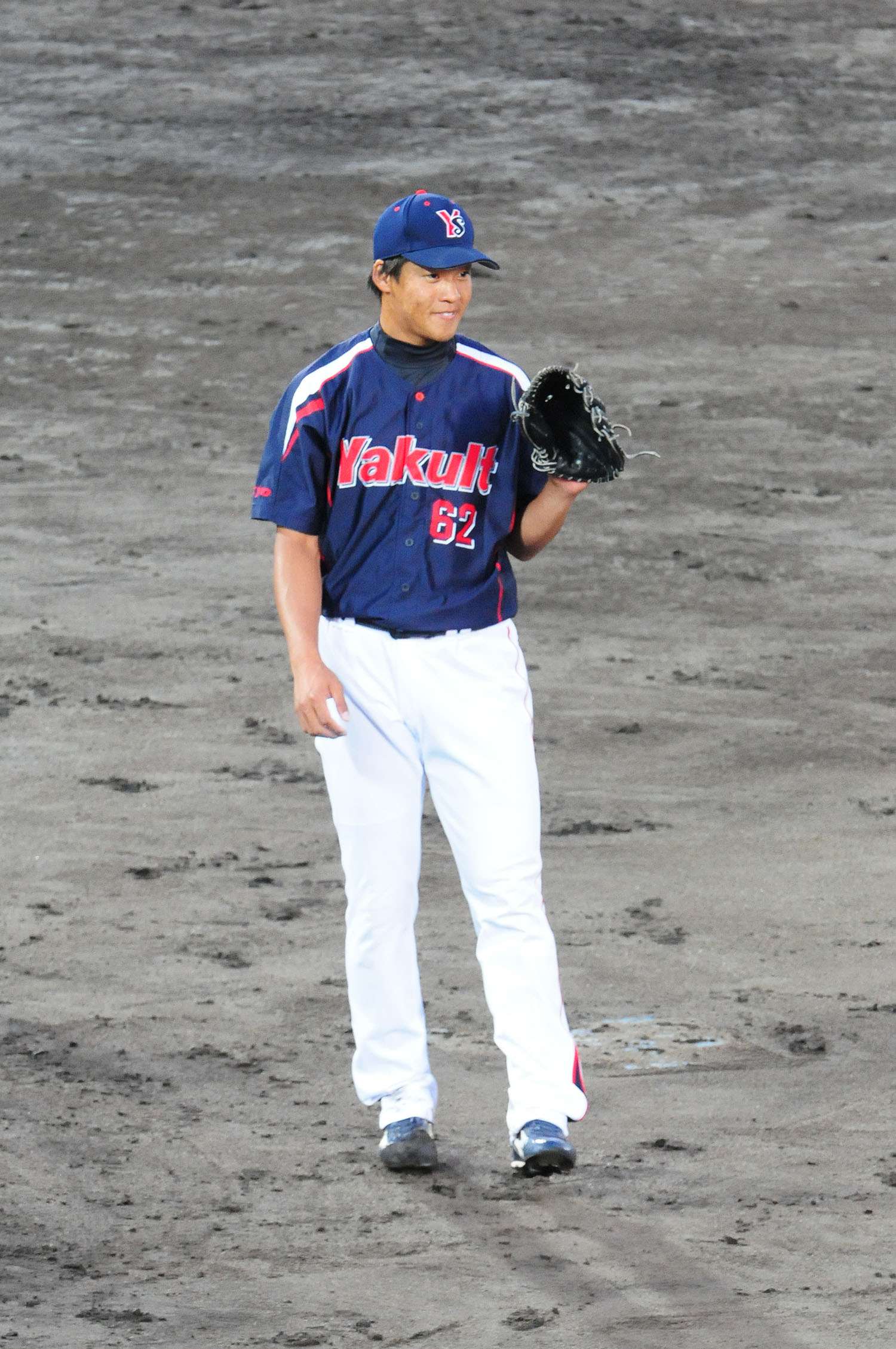 Takeaki Tokuyama, pitcher of the Tokyo Yakult Swallows, at Akita Prefectural Baseball Stadium.